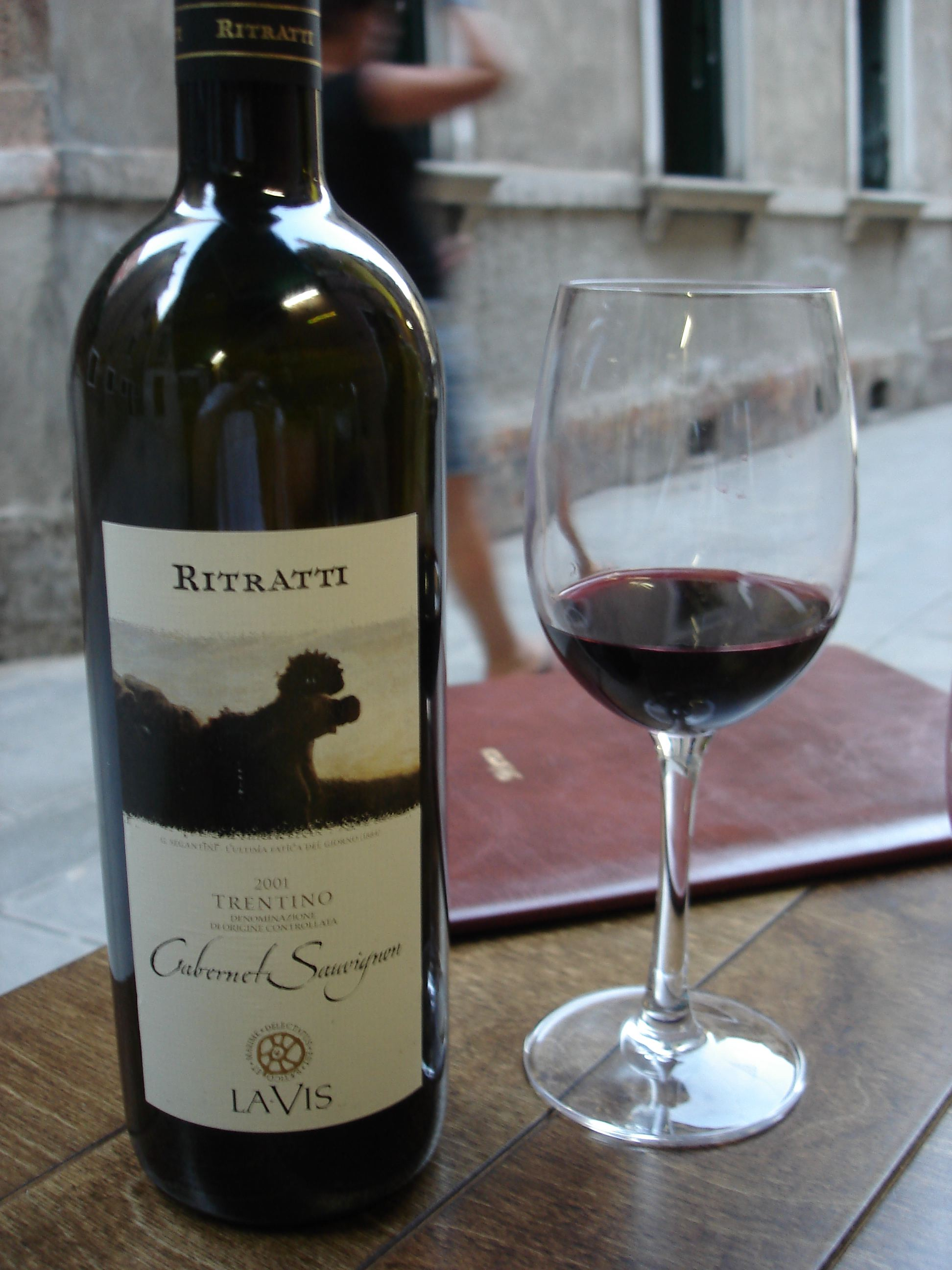 Italian Cabernet Sauvignon wine from Trentino region